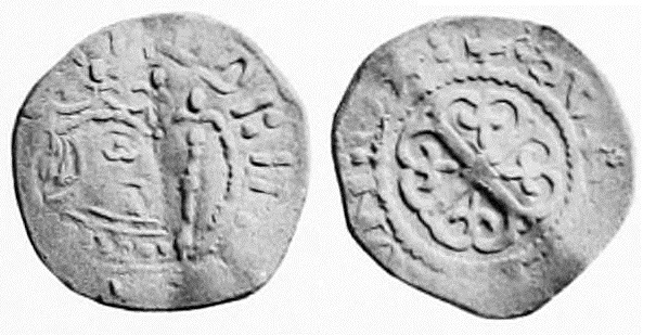 Empress Matilda silver penny from the Oxford Mint